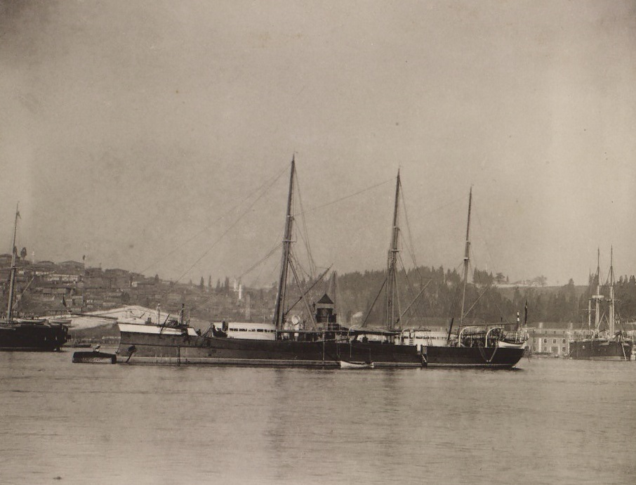 Ottoman Ironclad Hıfz-ur Rahman in Golden Horn